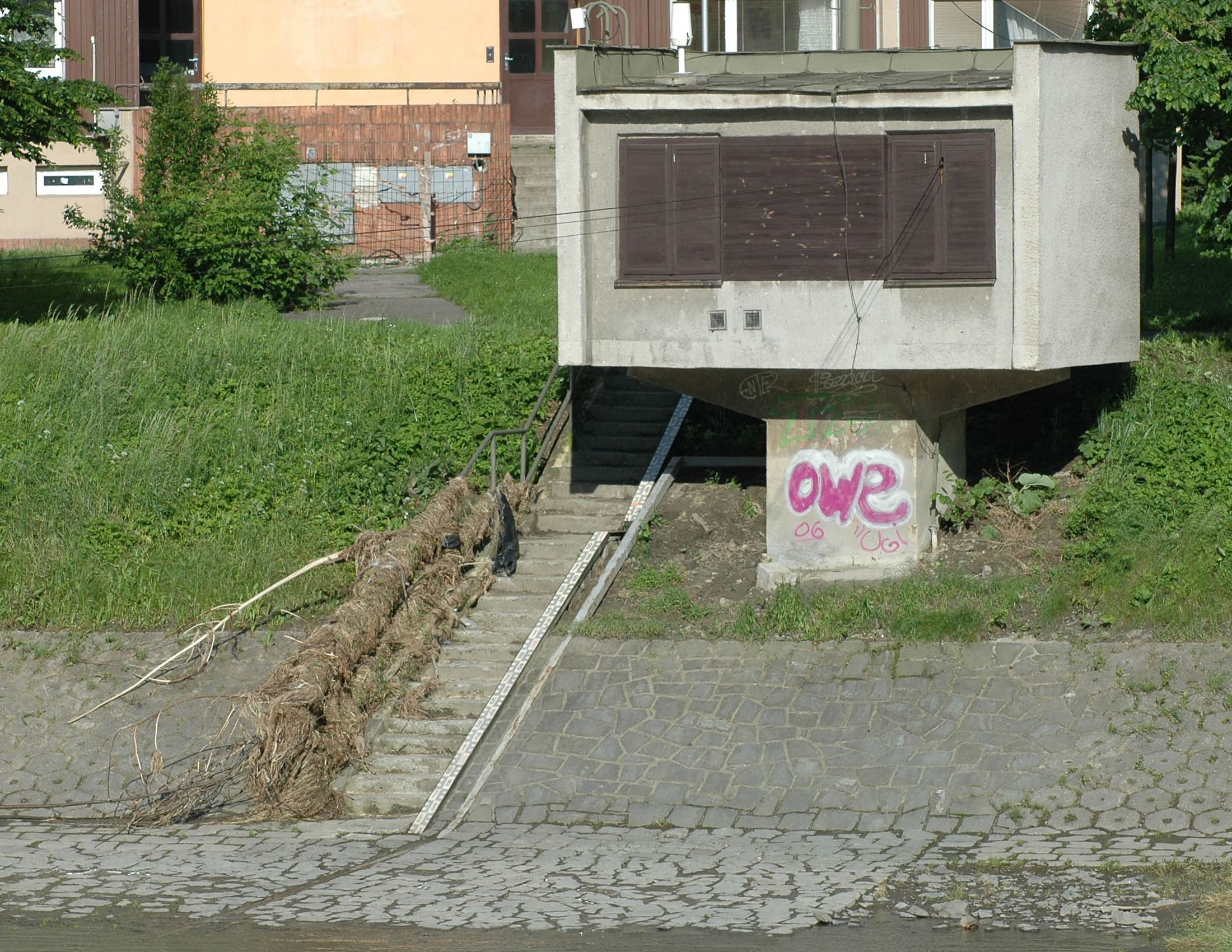 River measurement station Ostrava, Ostravice river, after floods in May 2010